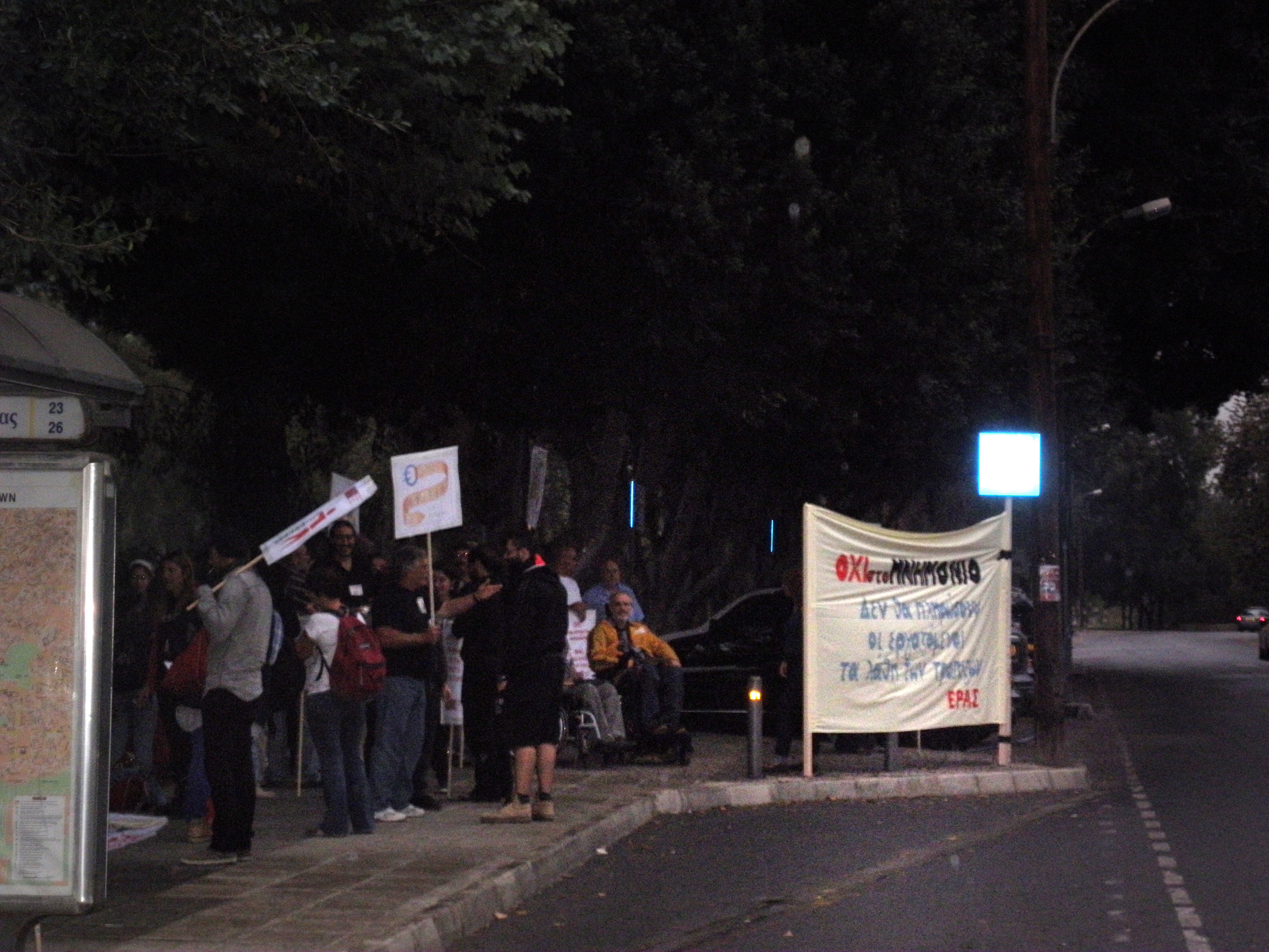 Members of ERAS (Committee for a Radical Leftist Rally, Επιτροπή για μια Ριζοσπαστική Αριστερή Συσπείρωση ) protesting against austerity measures outside the House of Representatives in Nicosia, Cyprus. The banner reads: No to the memorandum. Workers will not pay for the mistakes of the bankers. ERAS.